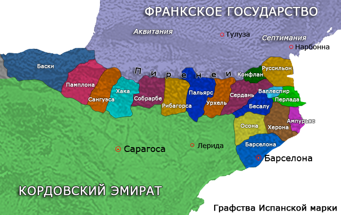 Counties of Marca Hispania